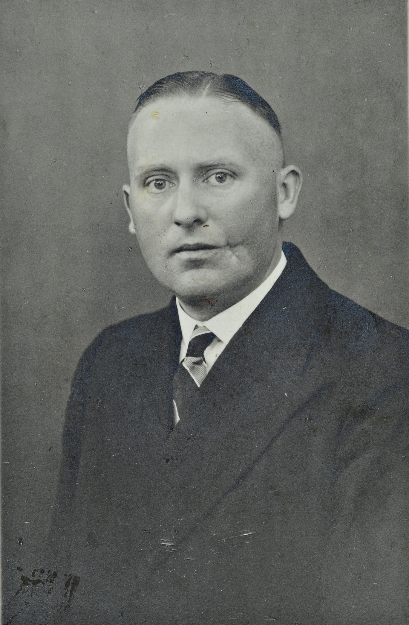 The SA-Brigadeführer Wilhelm Sander (1895-1934), who was executed on July 1 1934 as one of the victims of the Night of the Long Knives.